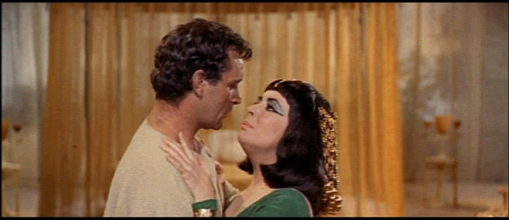 Cropped screenshot of Richard Burton and Elizabeth Taylor from the trailer for the film Cleopatra.